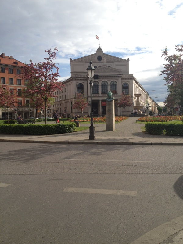 Gärtnerplatz